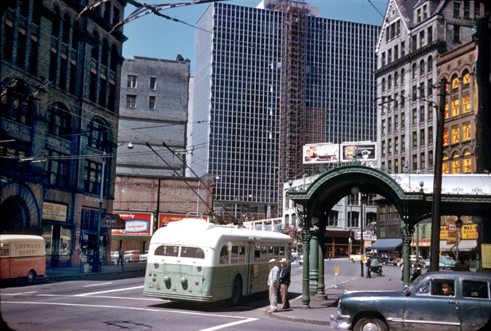 First and Yesler, Seattle, Washington, circa 1959. Norton Building under construction. The trolleybus is a 1944 Pullman-Standard, which type was in service in Seattle until 1978. Item 111175, Fleets and Facilities Department Imagebank Collection (Record Series 0207-01), [ Seattle Municipal Archives.